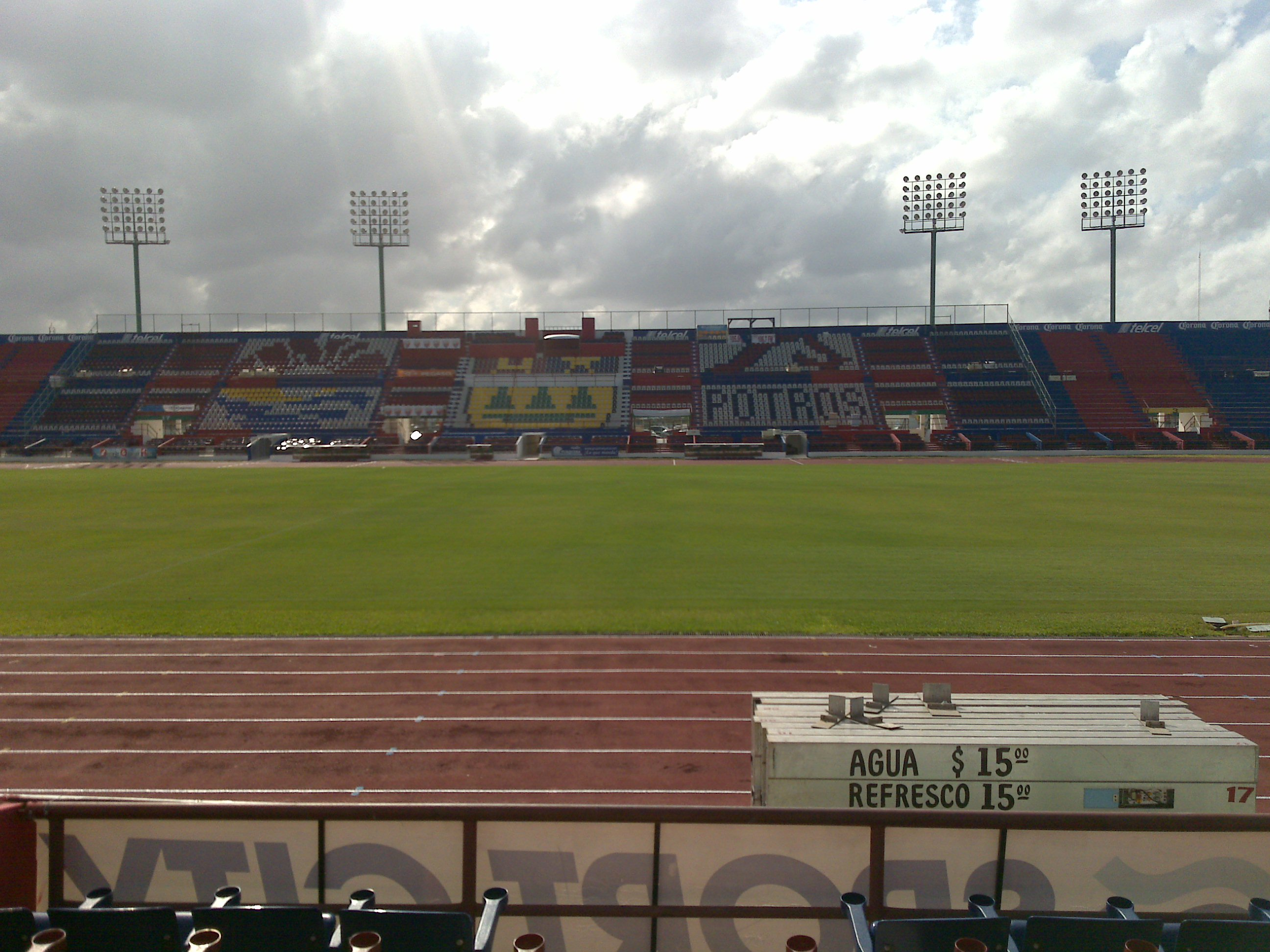 Picture of Estadio Quintana Roo.